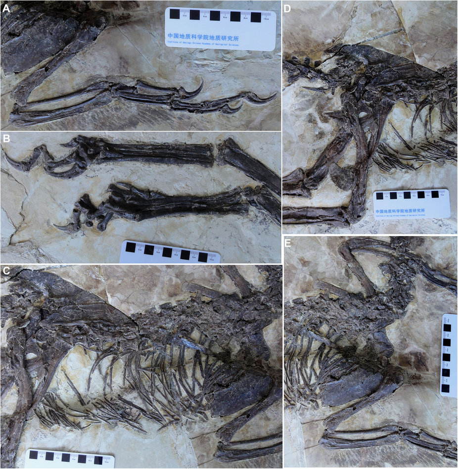 Figure 3: The postcranium of the large-bodied, short-armed Liaoning dromaeosaurid Zhenyuanlong suni gen et. sp. nov. (JPM-0008). (A) right forearm; (B) distal hindlimbs; (C) thorax; (D) pelvis; (E) pectoral girdles.